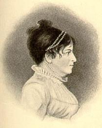 portrait card of Susanna Rowson